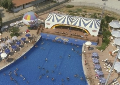 RTL radio at Aquapark of Zambrone on 1995